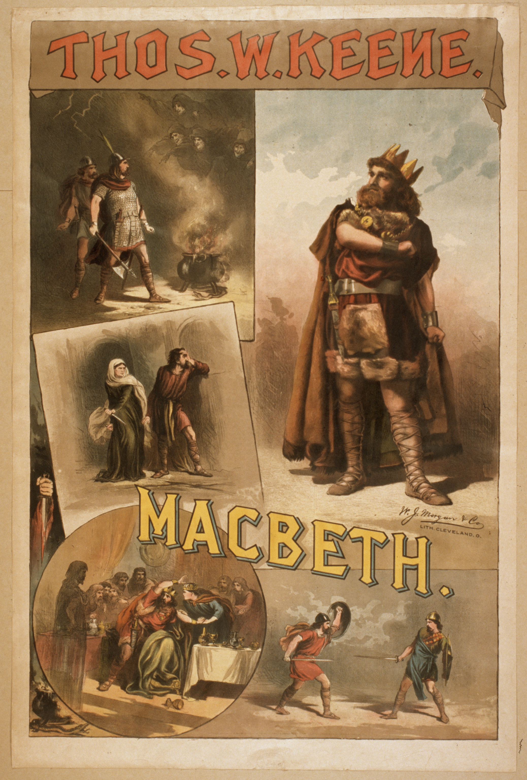 Archival file: See File:Thomas_Keene_in_Macbeth_1884.png or File:Thomas_Keene_in_Macbeth_1884 Wikipedia crop.png for restored images. Poster of Thos. W. Keene in William Shakespeare's MacBeth, c. 1884.